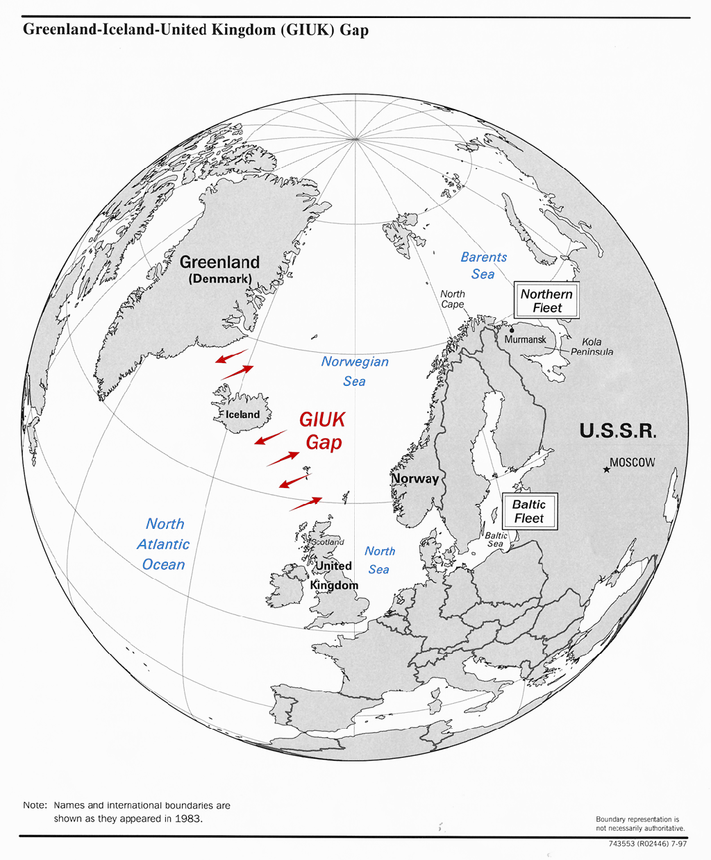 This is a PNG version of "Guik gap.gif" as it appeared on the English Wikipedia. As it has been recommended that the GIF version is replaced by a PNG or SVG version, I converted the original GIF to PNG and uploaded it to Wikimedia Commons instead. All I have done is convert the image to PNG, and rename it to "GIUK_gap" instead of "Guik gap", in correspondance with the Wikipedia article on the GIUK gap.